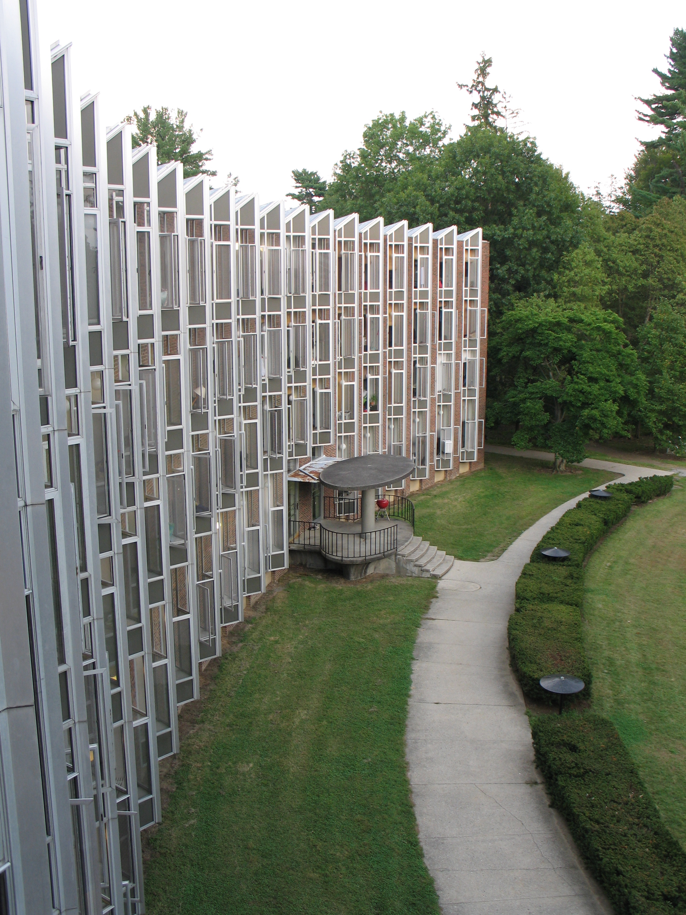 Emma Hartman Noyes house on the Vassar College Campus, designed by Eero Saarinen.